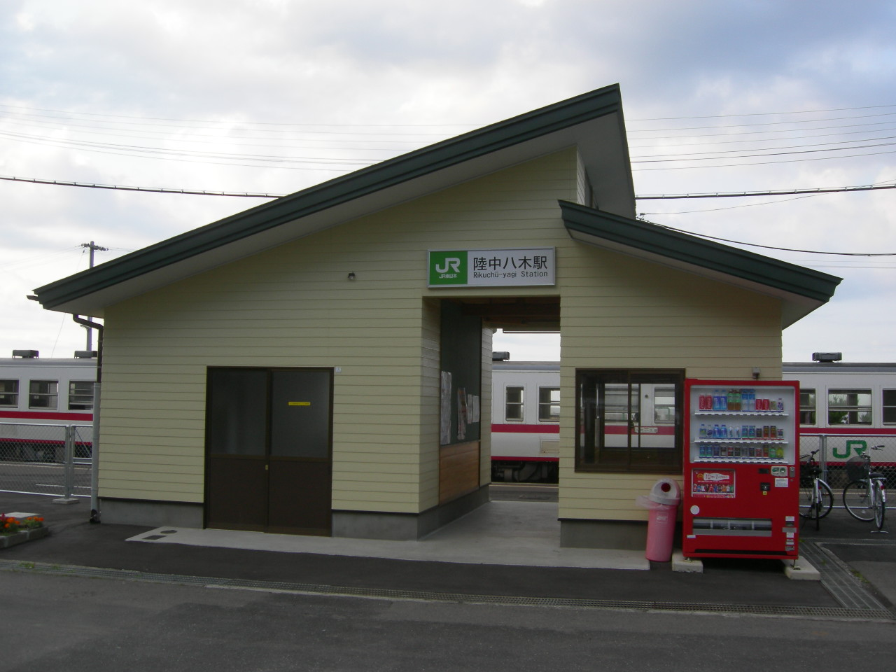 JR East Hachinohe-line Rikuchu-Yagi station